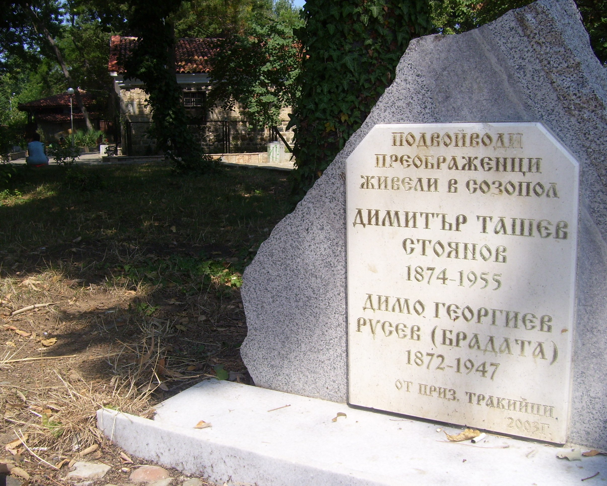 Memorial stone of Dimitar Tahev Stoyanov and Dimo Georgiev Rusev in Sozopol, Bulgaria.